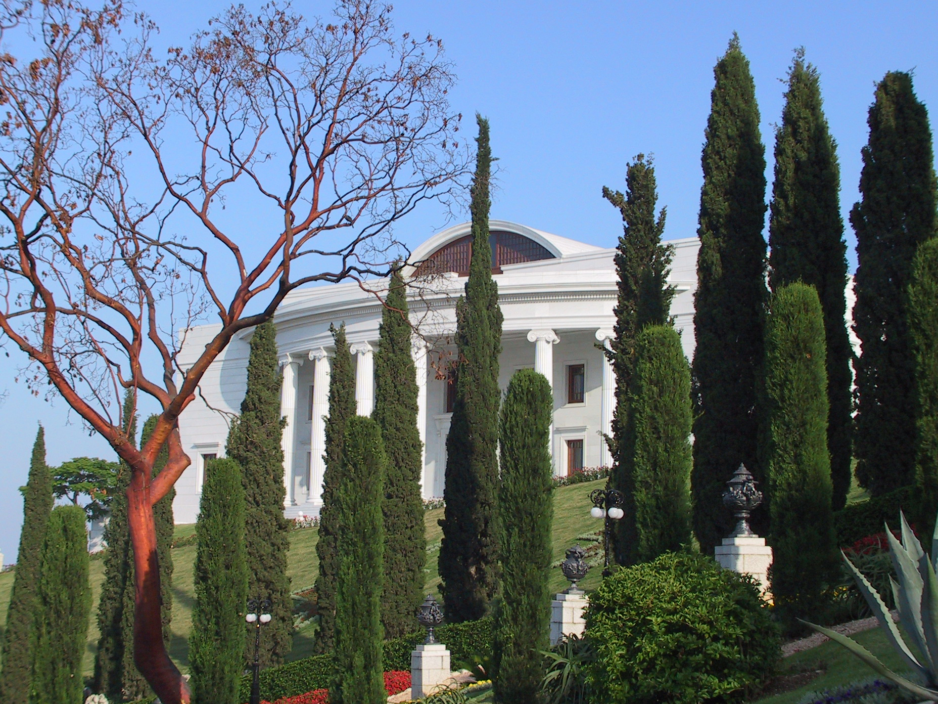 Bahai International Teaching Centre, Haifa